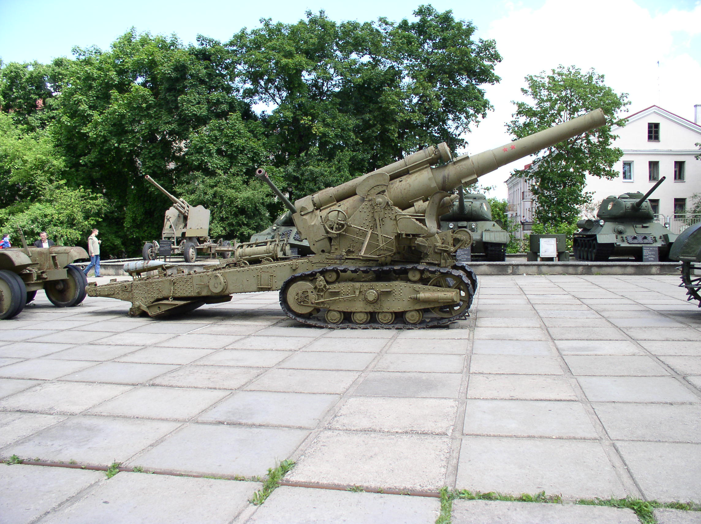 B-4 Hotwitzer of 203 mm, museum of Great Patriotic War's Exhibition, Minsk, Belarus.